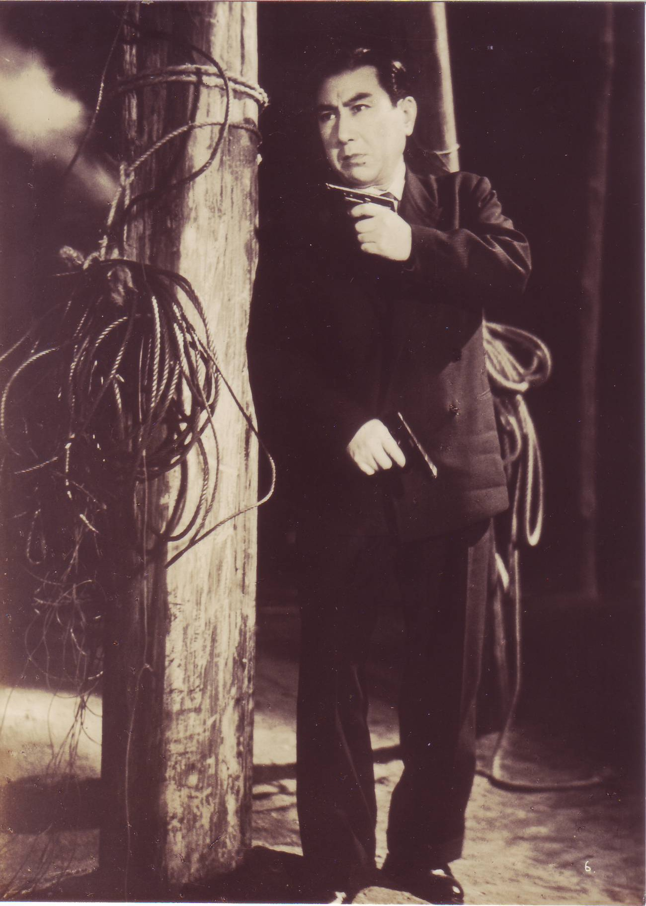 Chiezō Kataoka of Bannai Tarao. Studio Still of the 1954 Japanese film "Kyokubadan no Maō (Beelzebub of the circus troupe) " (Toei Company).